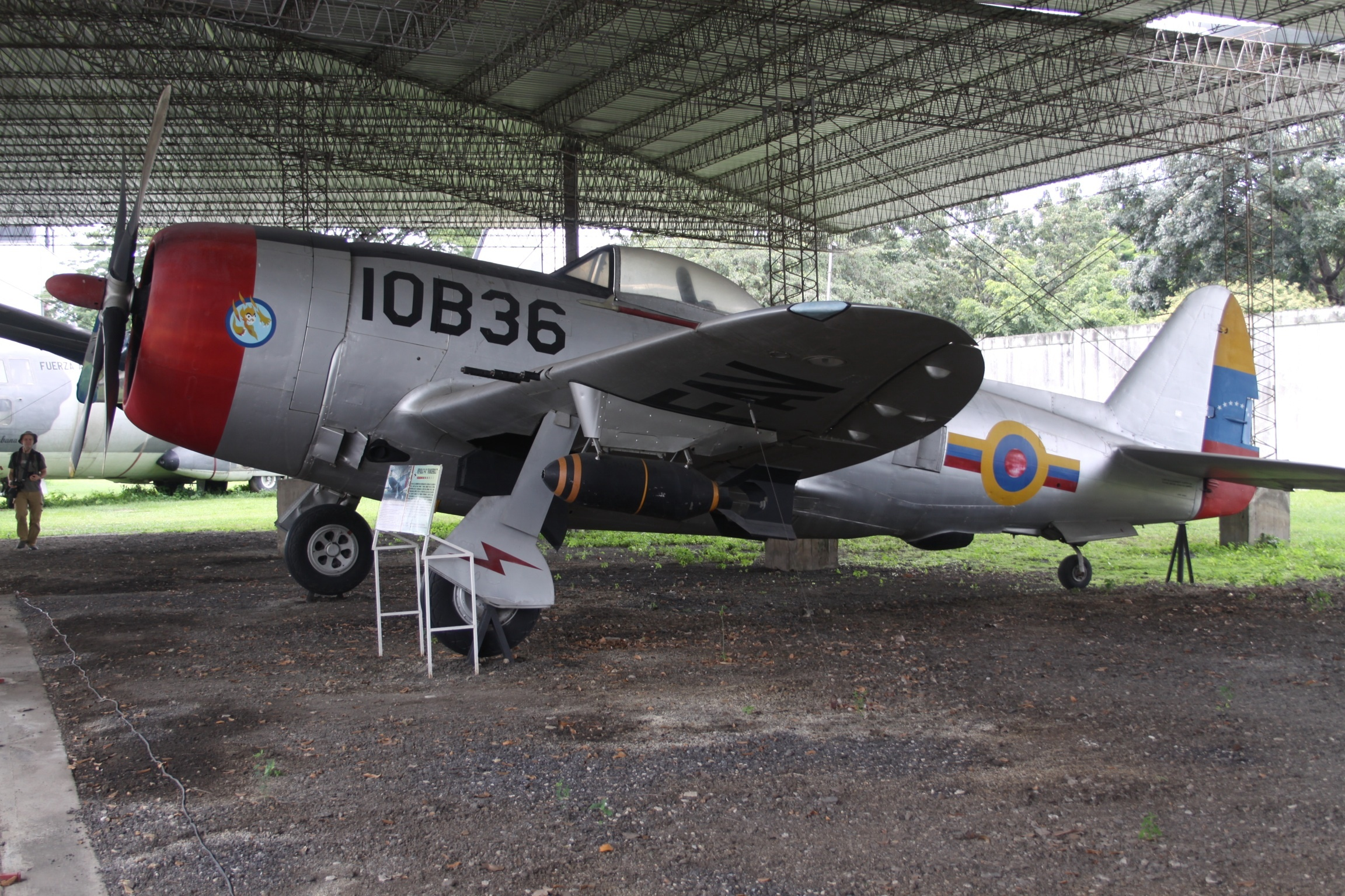 At Museo Aeronáutico de Maracay